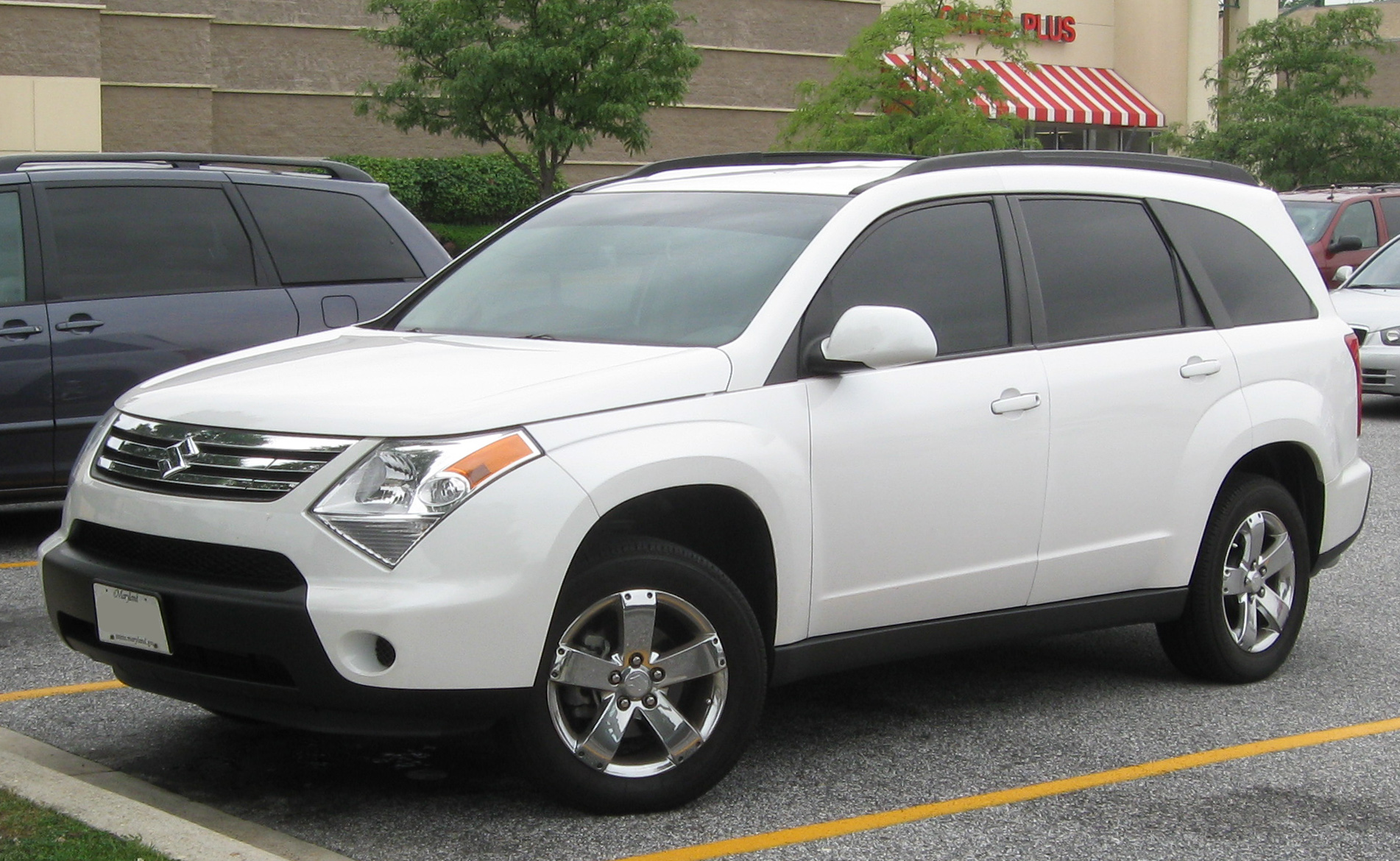 2007-2009 Suzuki XL7 photographed in Laurel, Maryland, USA.